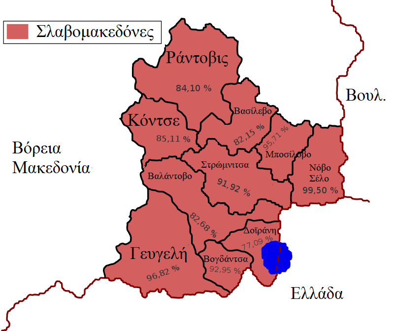 Political map of the majority ethnic groups in the Southeastern Statistical Region of North Macedonia in Greek language.